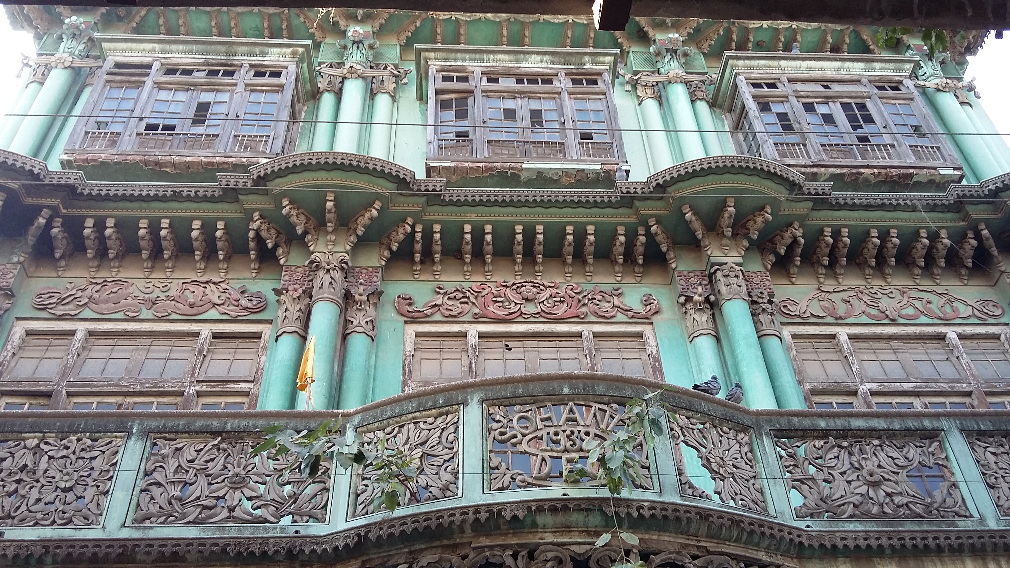 pre independence architect khanna